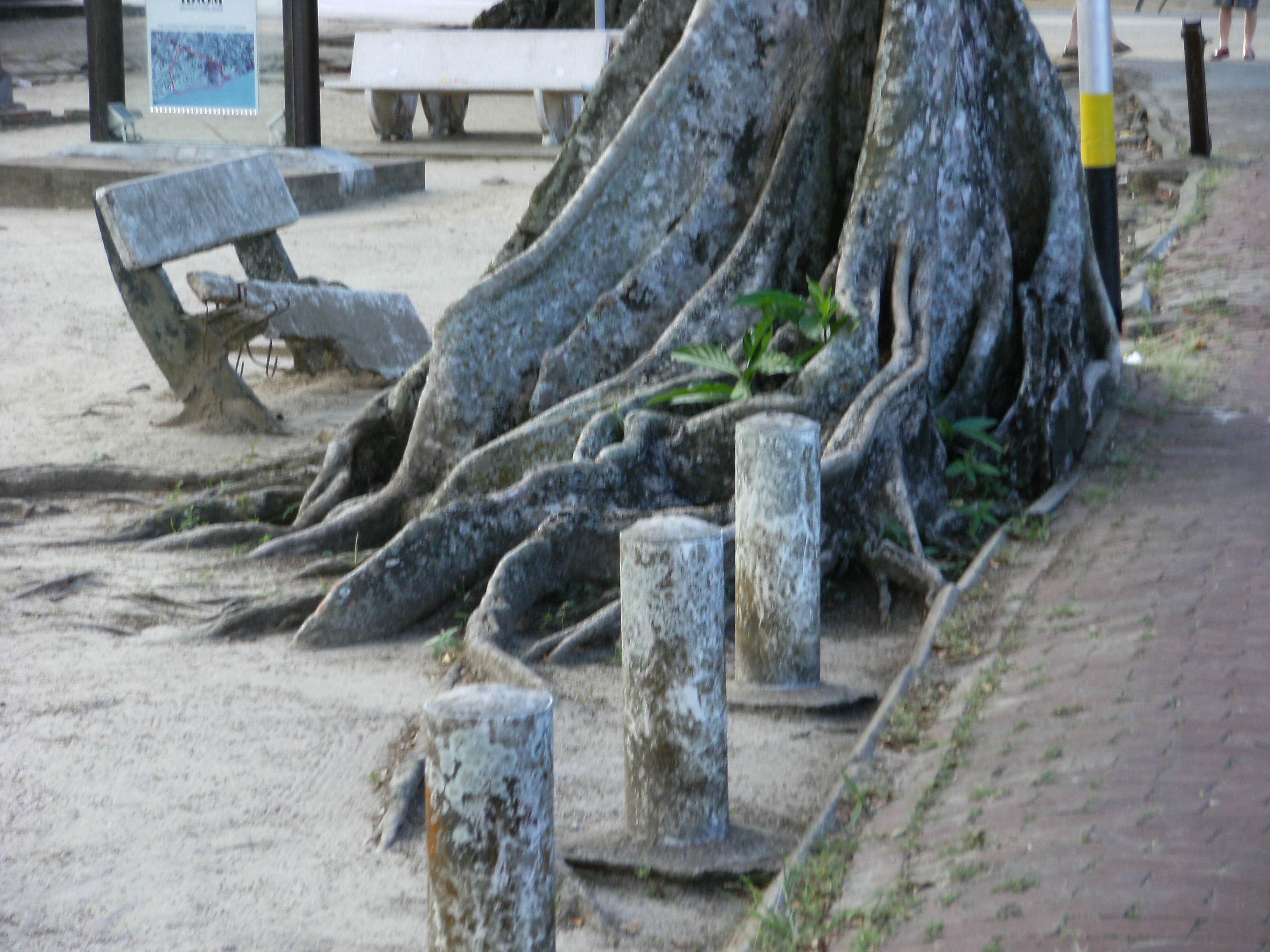 Roots of tree in Paramaribo.